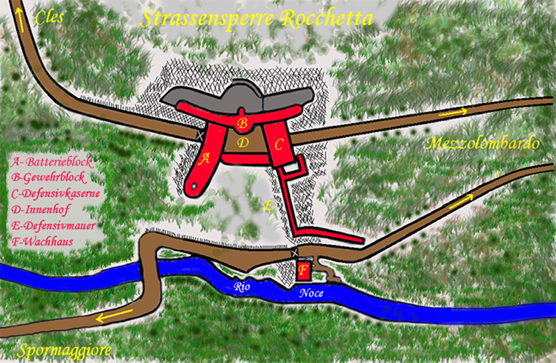 Fort Rocchetta (South Tyrol)